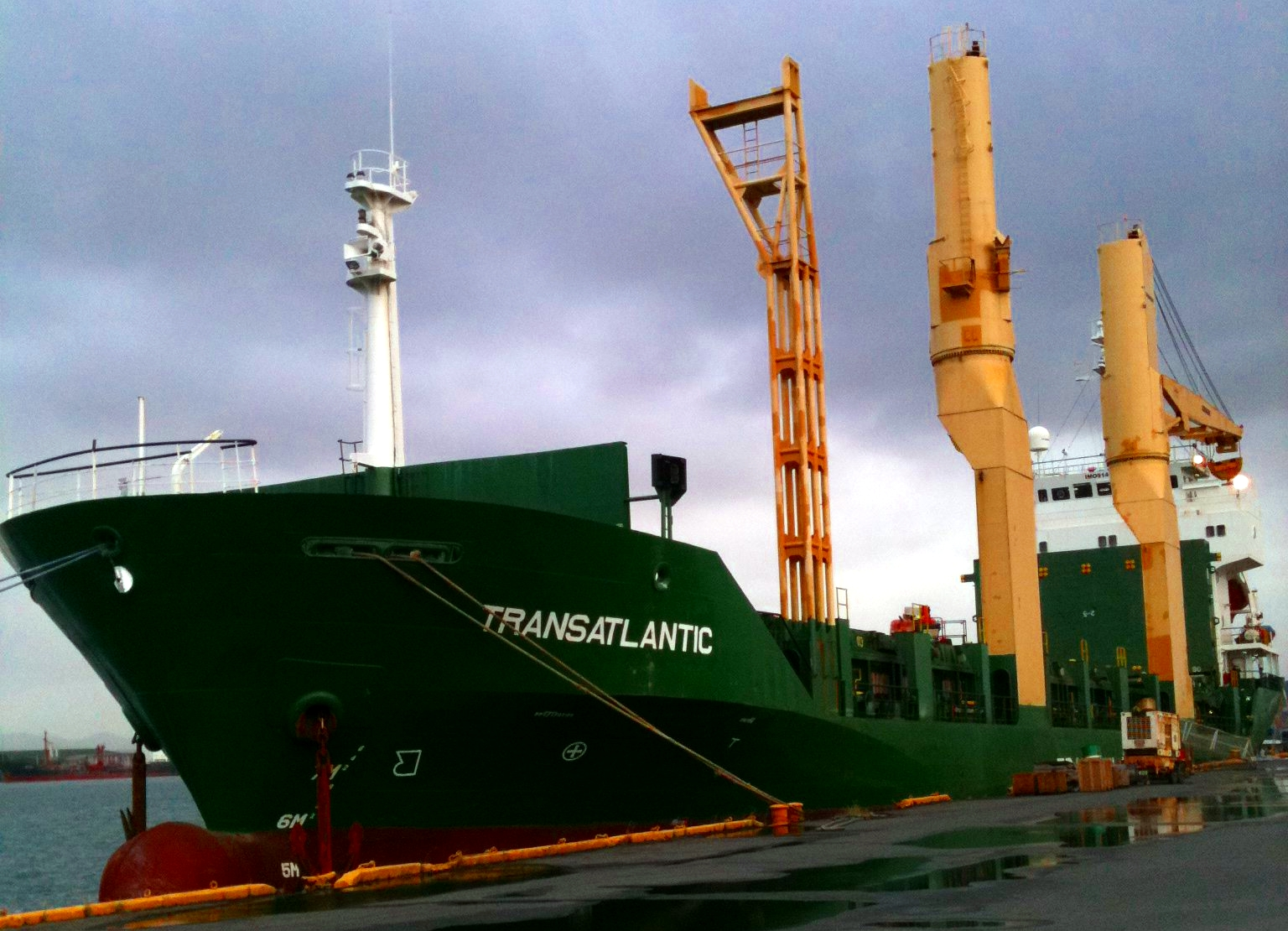 Container ship Motor Vessel TransAtlantic pierside in San Juan, Puerto Rico. IMO Number: 9148520 Length: 101 m Beam: 16 m